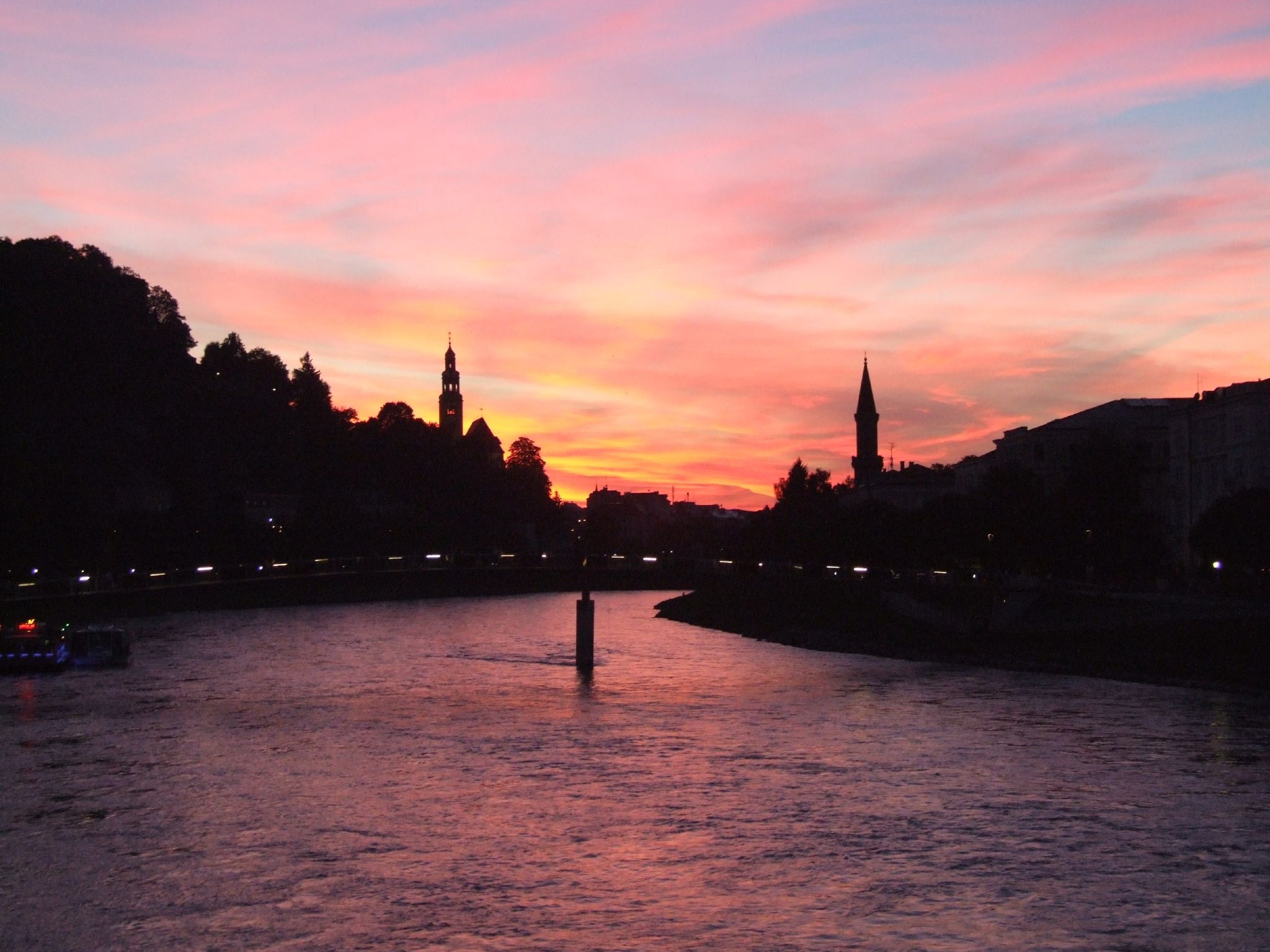 Summer evening in Salzburg